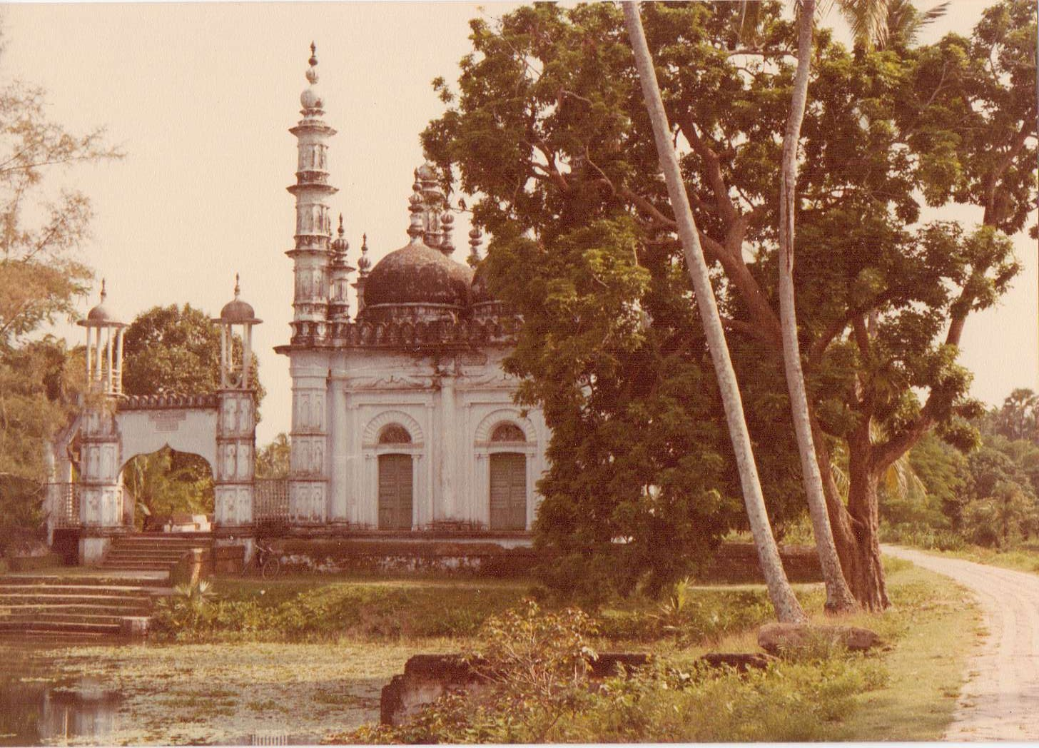 The Salamatullah Mosque, overlooking a pond, as viewed from a distance in 1982.